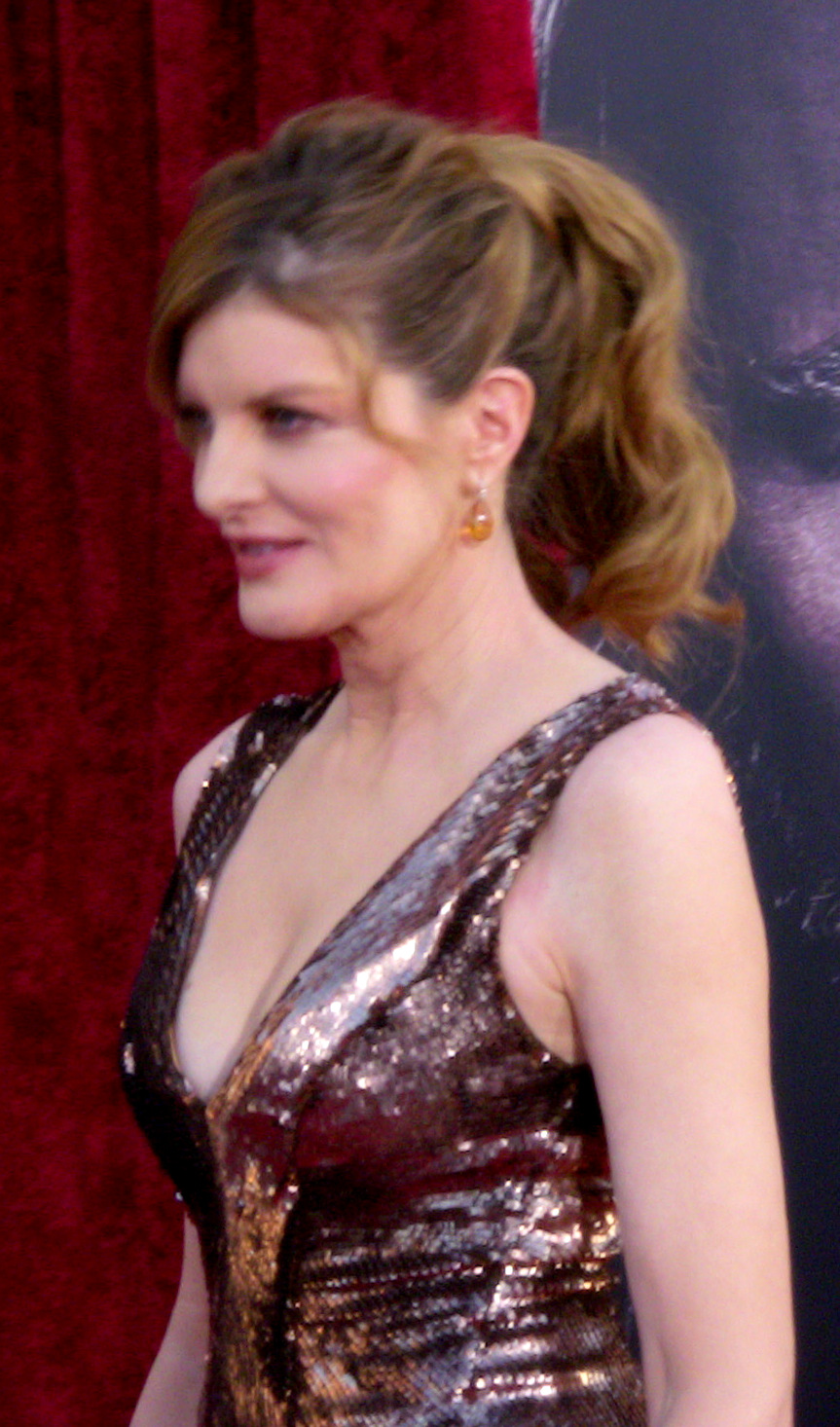 Rene Russo by MingleMediaTVNetwork